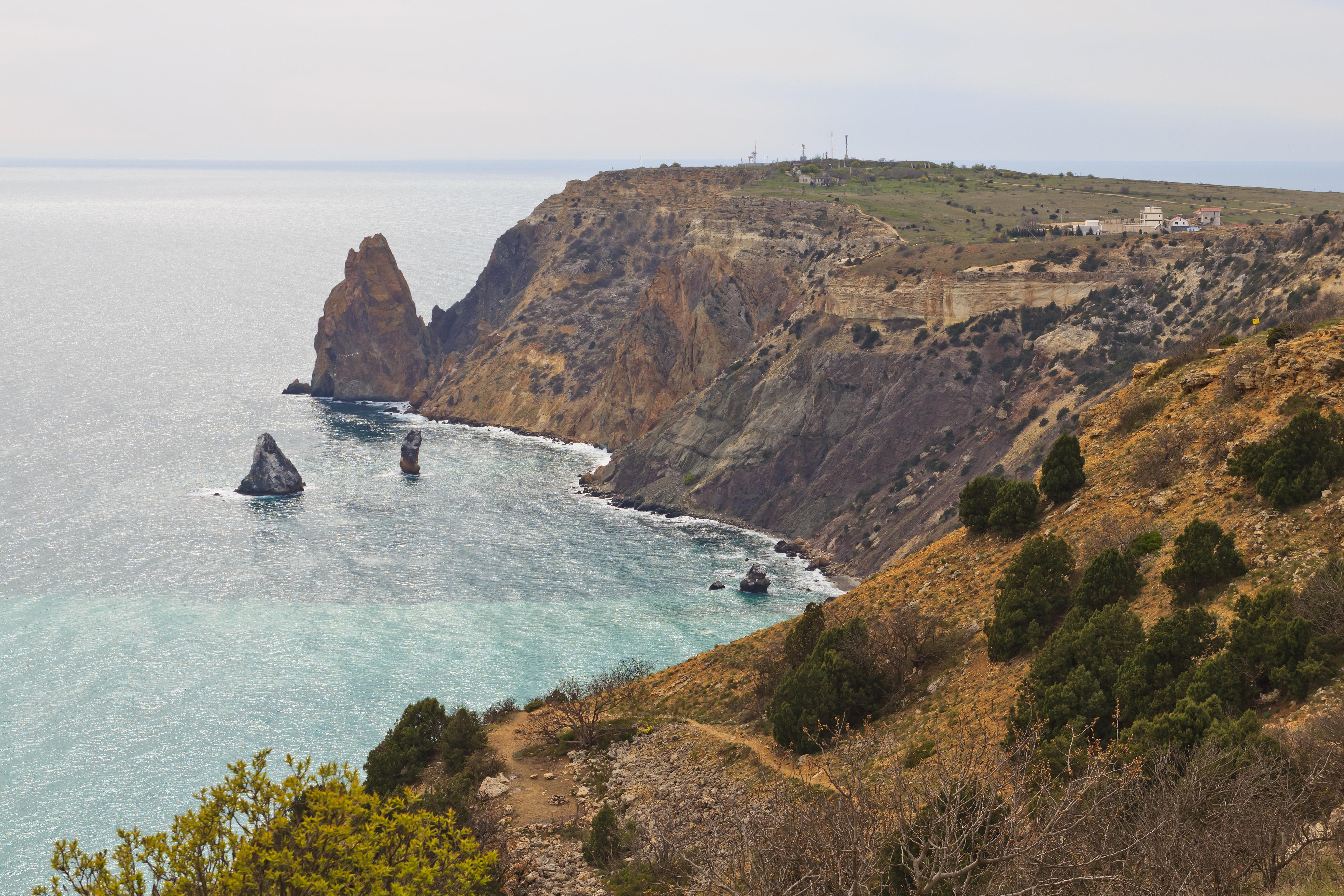 View to Cape Fiolent in the Federal City of Sevastopol. Crimean peninsula.